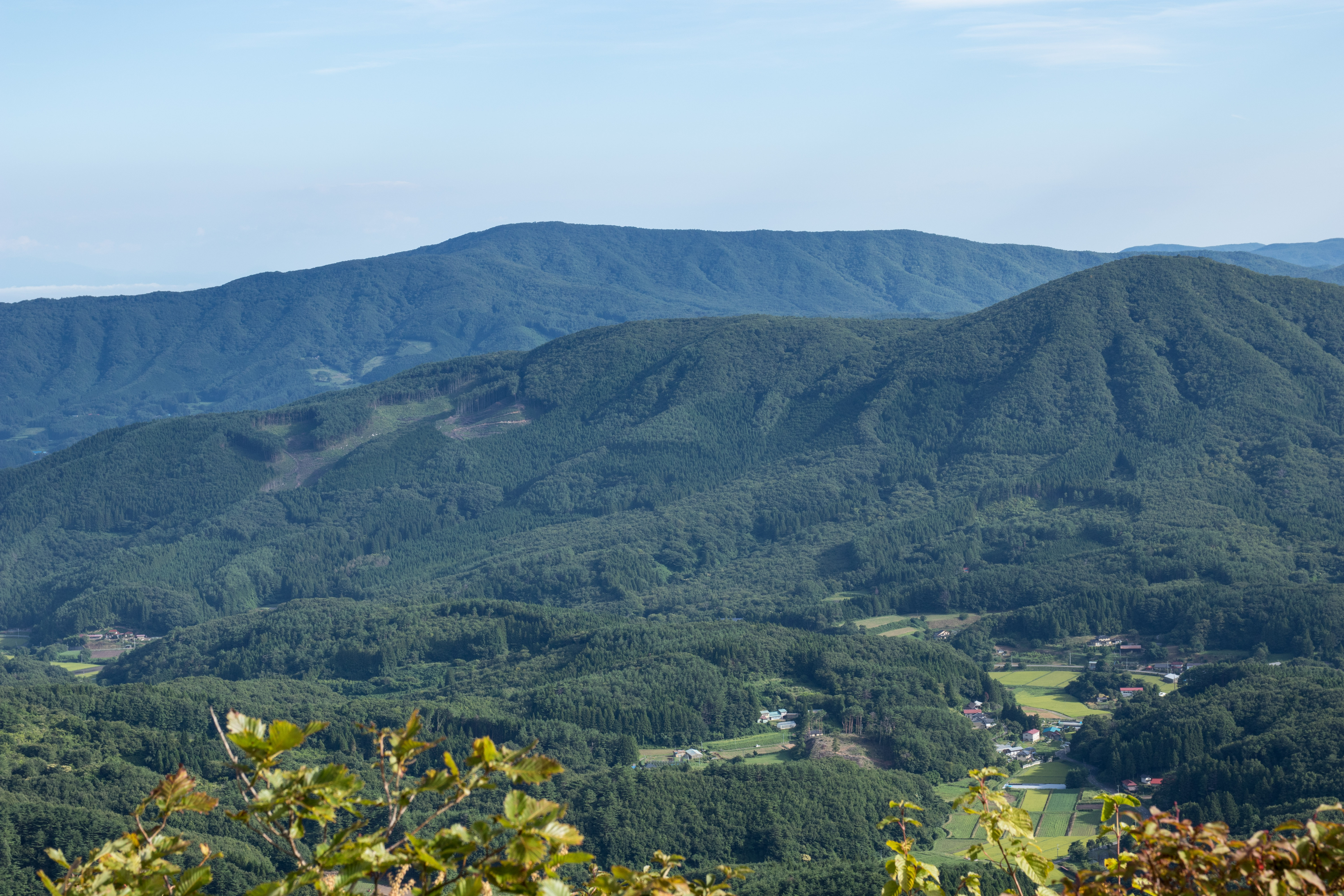 Mount Hiyama as seen from Mount Kamakura, Abukuma Mountains, Fukushima Pref., Japan